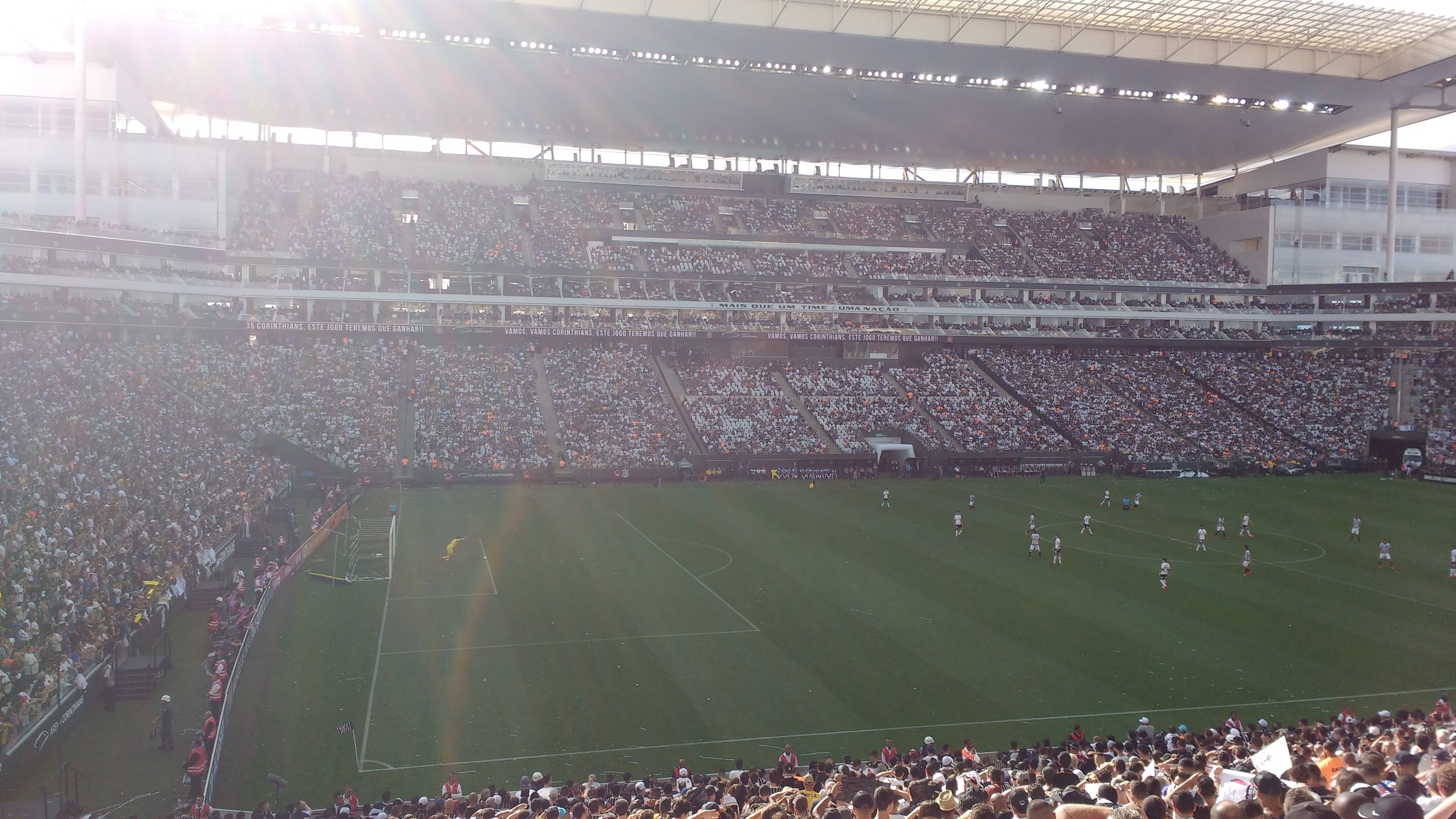 Corinthians x Atlético-MG - Hep7a Cup delivery game at the Corinthians Arena